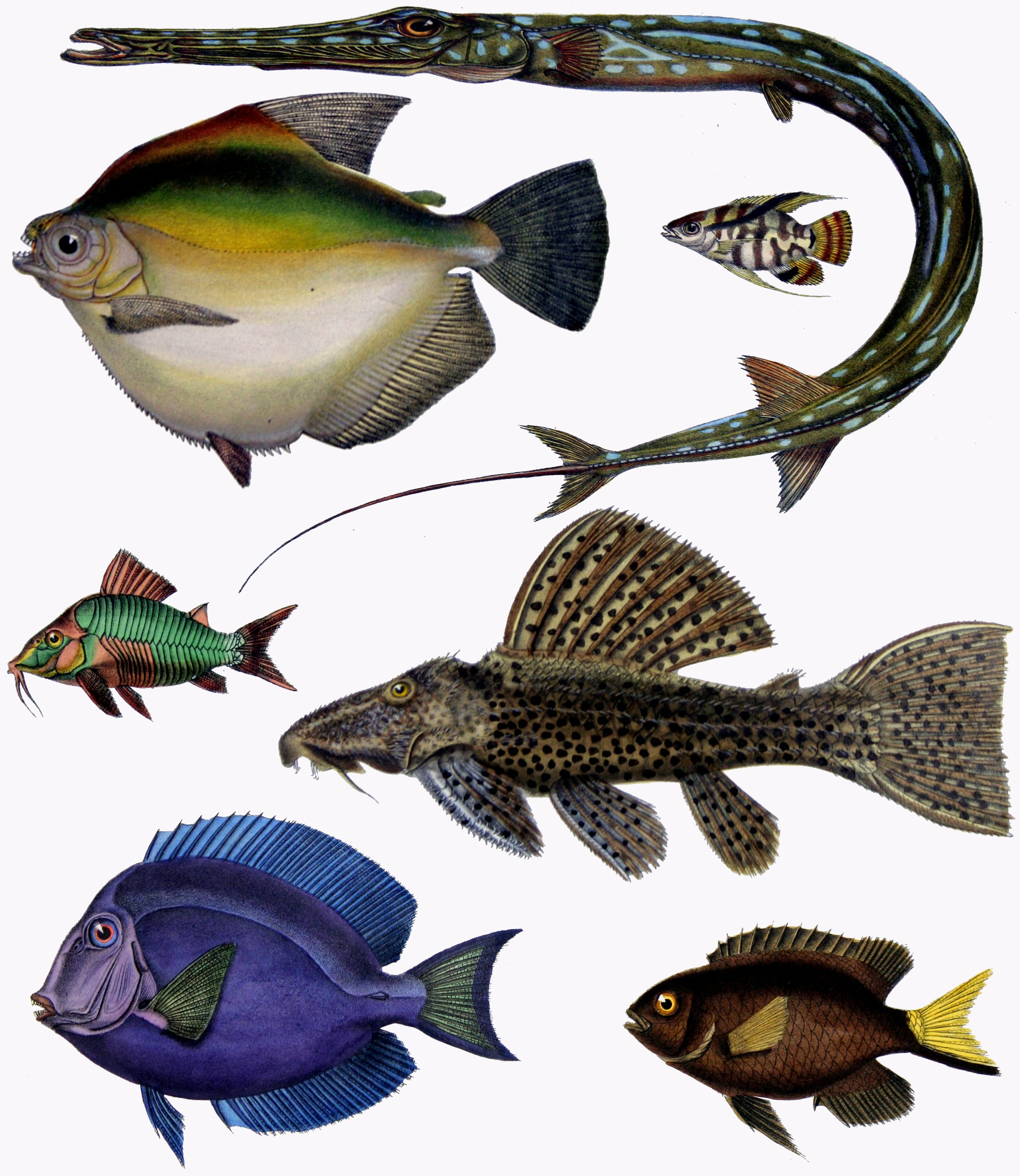 Selection of paintings of teleost fish by Francis de Laporte de Castelnau from his Expédition dans les parties centrales de l'Amérique du Sud, de Rio de Janeiro à Lima et de Lima au Para sous la direction du Comte Francis de Castelnau, 1856